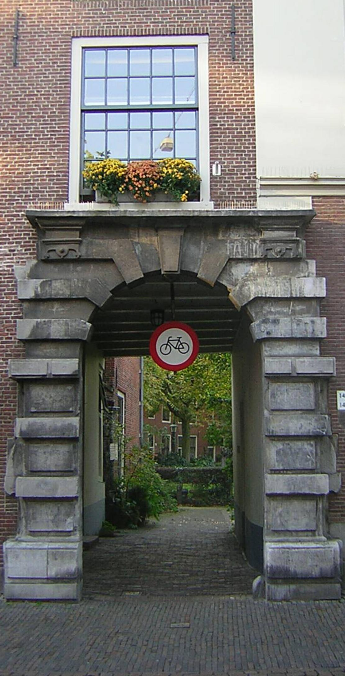 Entrance of the Proveniershof, Haarlem, The Netherlands. This is the oldest part of the Proveniershof.